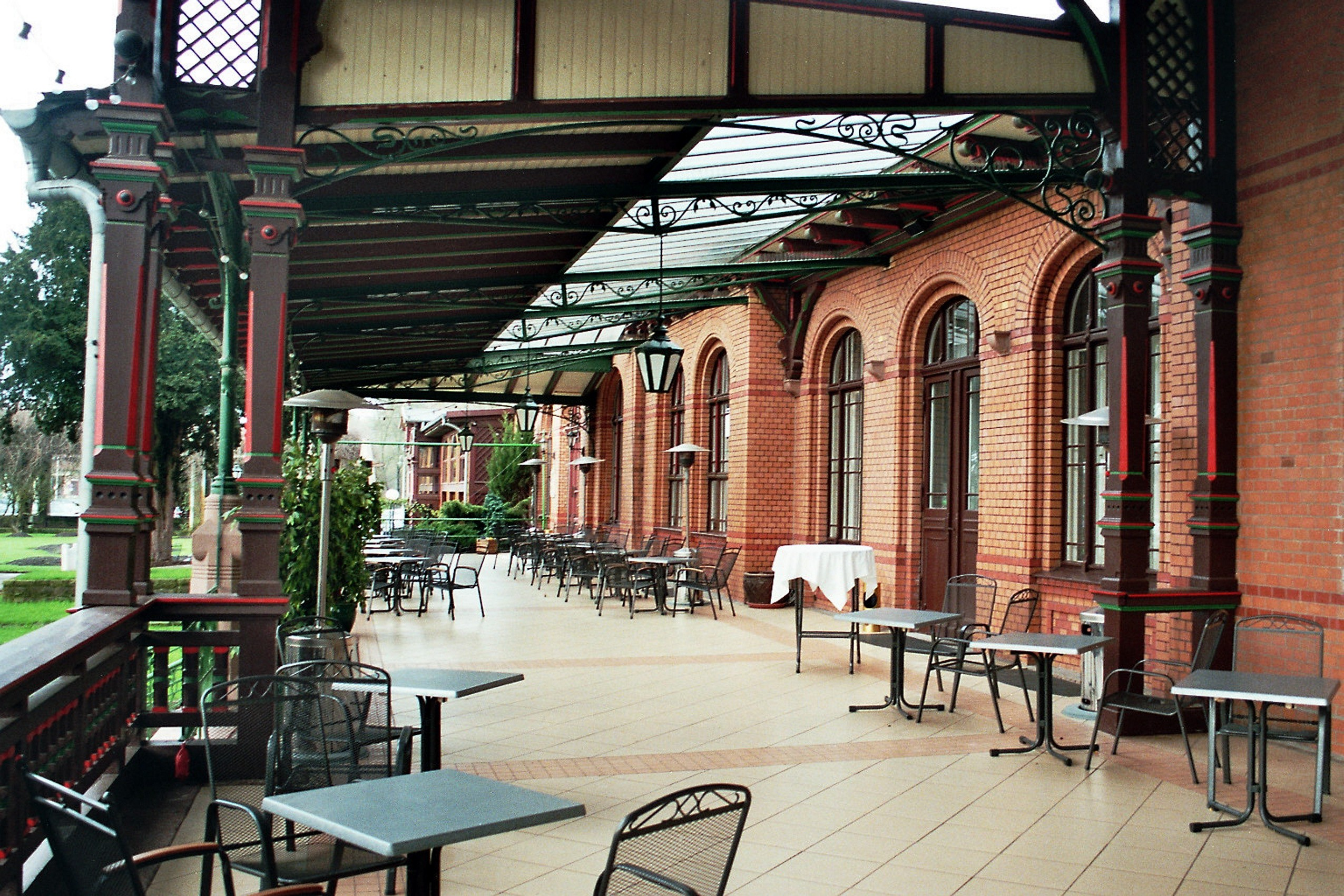 Magdeburg, Parkhotel Herrenkrug